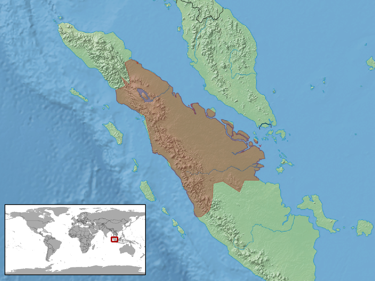 geographic distribution of Calamaria mecheli (Native: Indonesia (Sumatera))